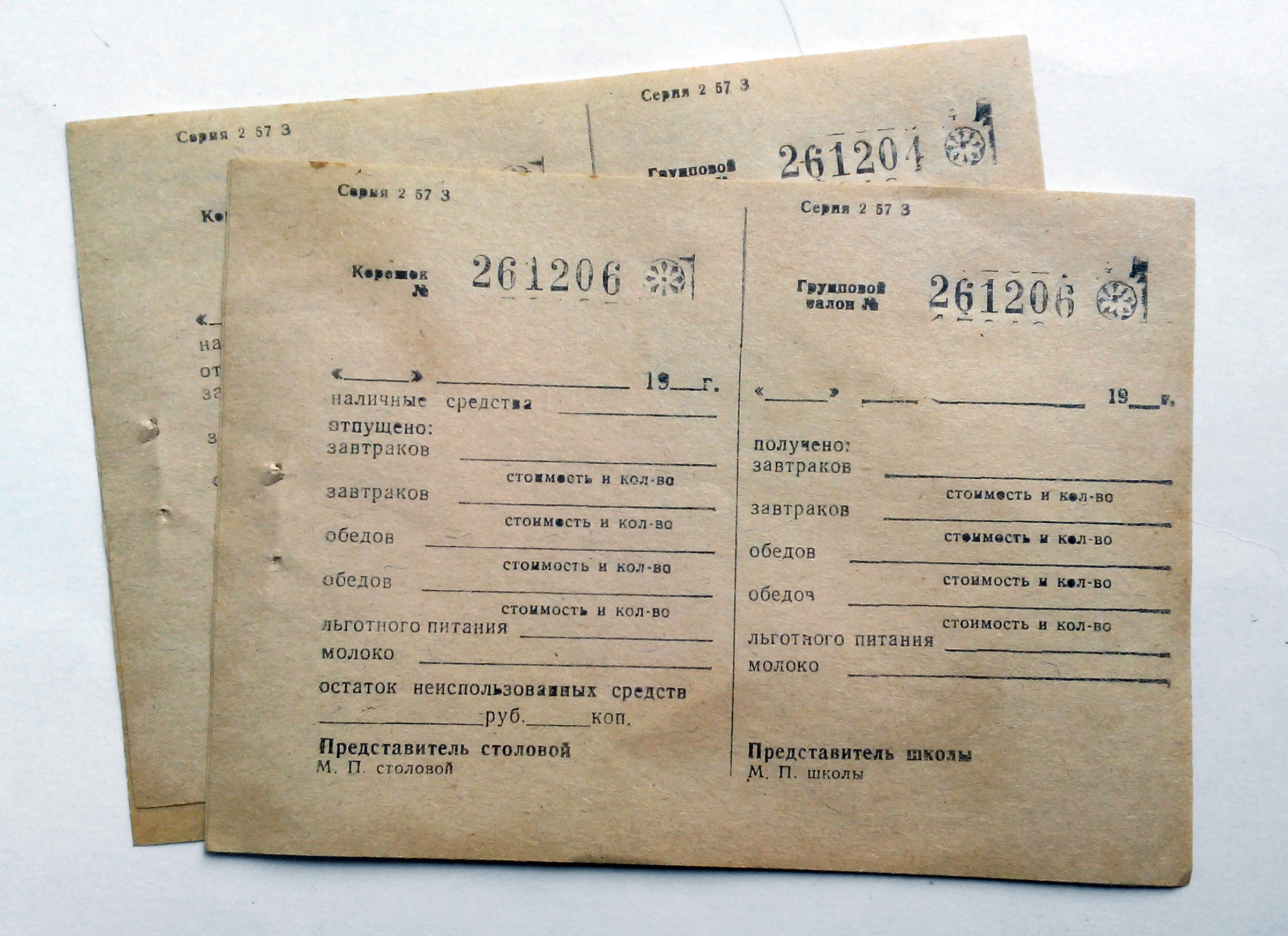 Talon from Soviet Union times for obtaining indicated amount of dishes dinner.